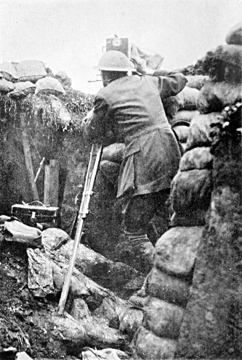 Lt Geoffrey Malins filming the preliminary bombardment of the First Day of the Battle of the Somme, July 1st 1916. Malins shots became part of the documentary film The Battle of the Somme.